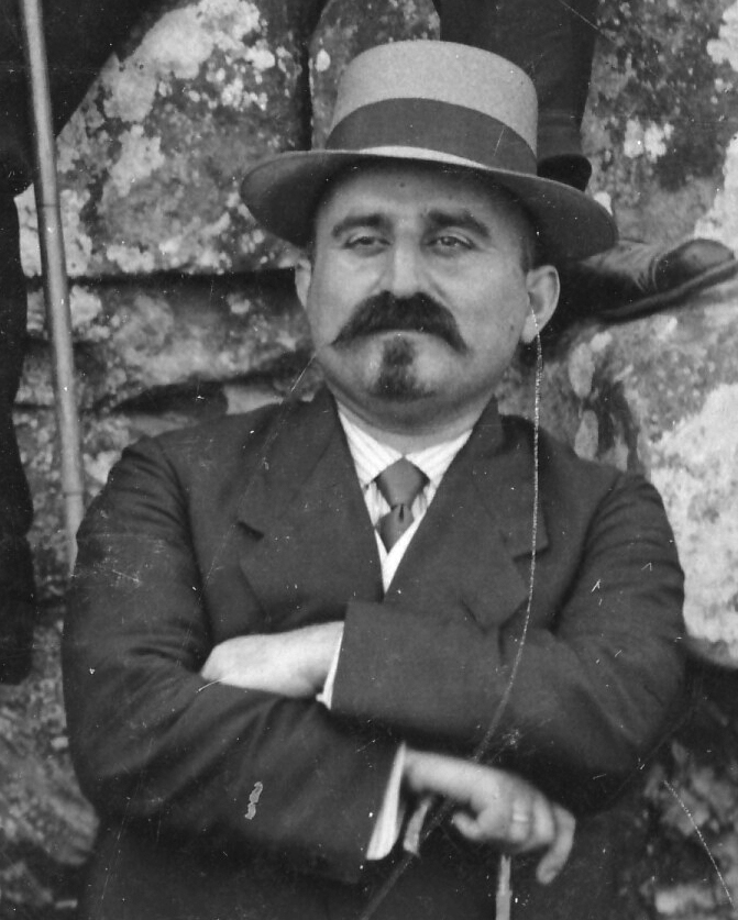 Historian and educator Sergey (Sergi) Gorgadze (1876–1929) during the expedition to the Cross Church in Mtskheta.